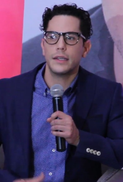 Christian Chávez in 2017